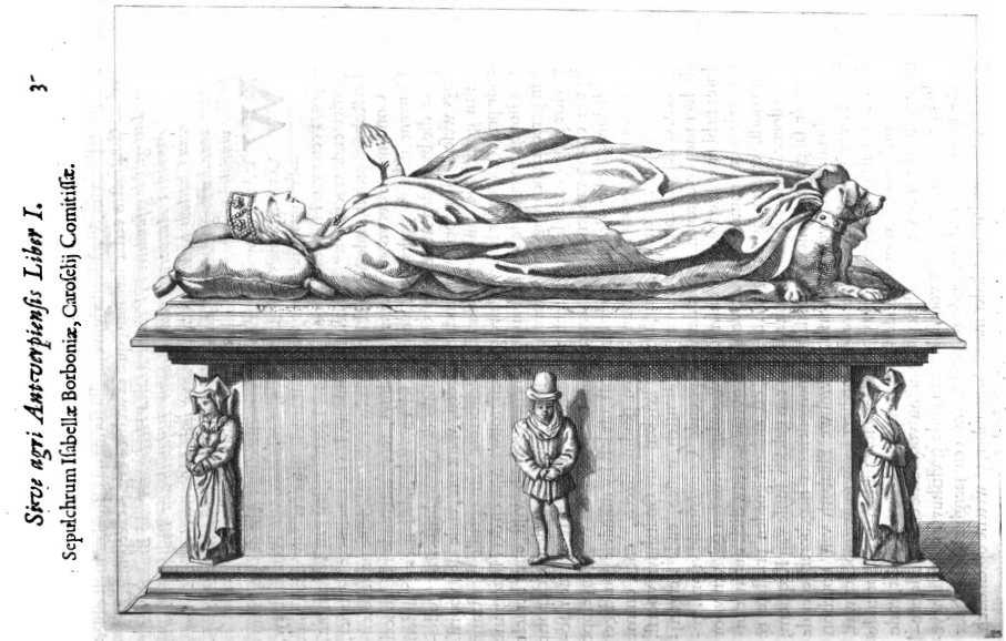 Isabella of Bourbon 's funeral monument in the St. Michael's Abbey of Antwerp